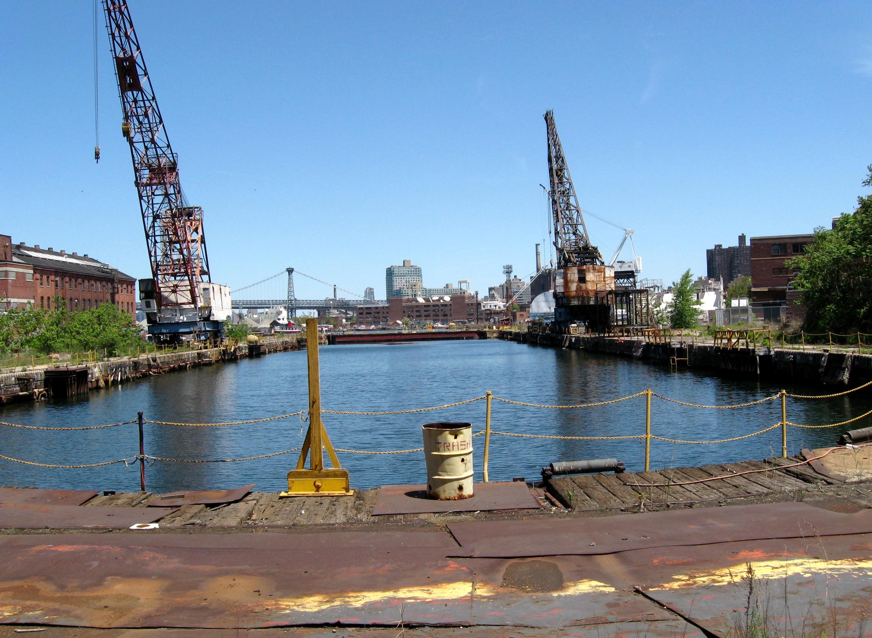 Looking north in Brooklyn Navy Yard at a drydock on a sunny morning. Is this the landmarked #1, or is it a newer one south of there?